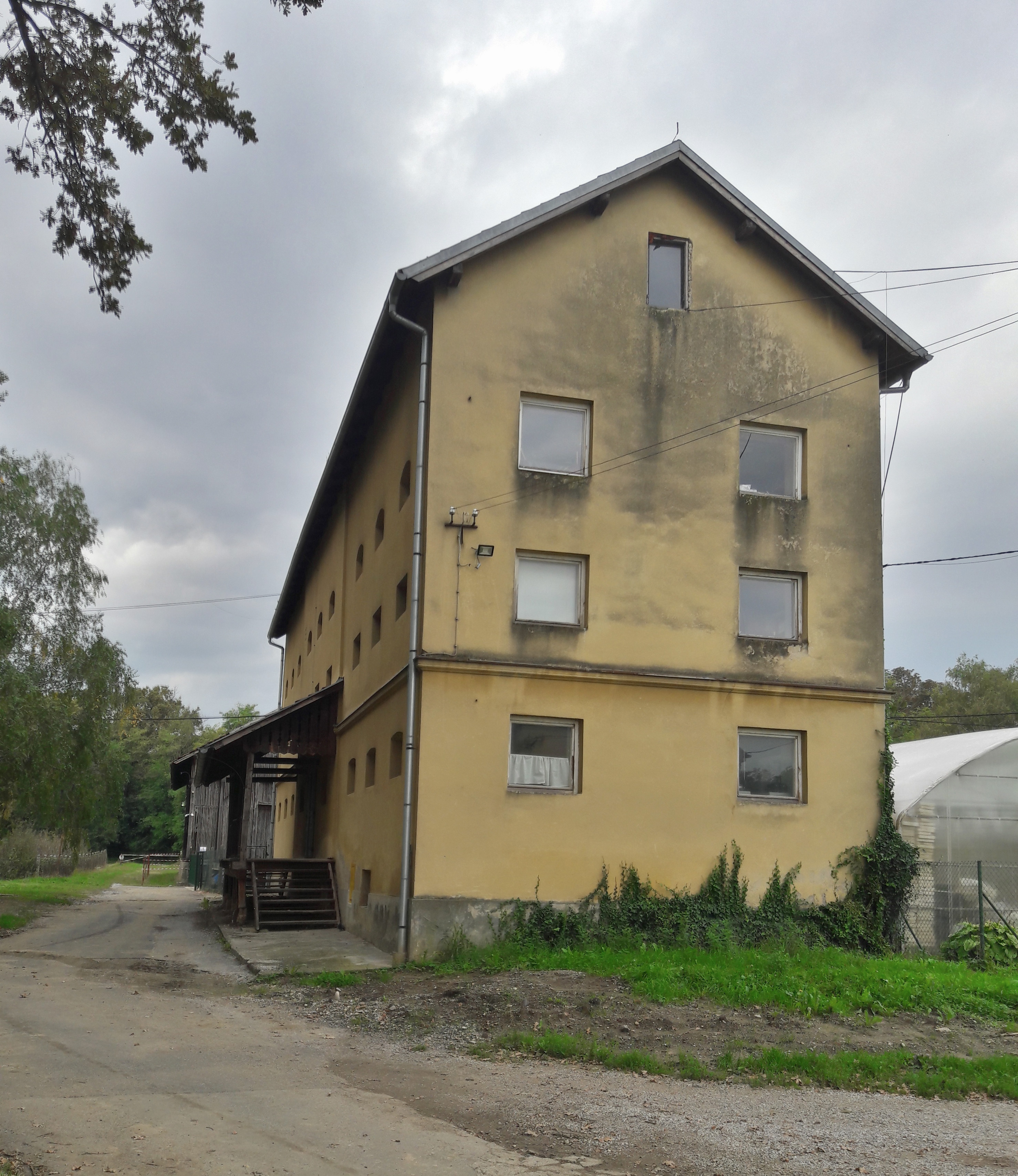 Ex Silk factory in Maksimir Park